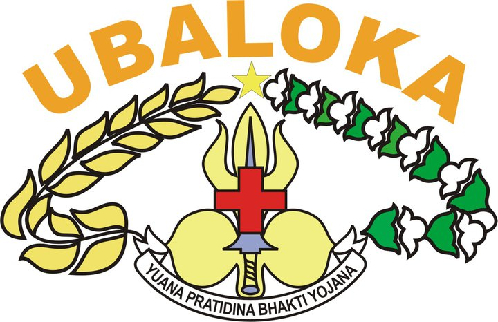 ubaloka is a scout